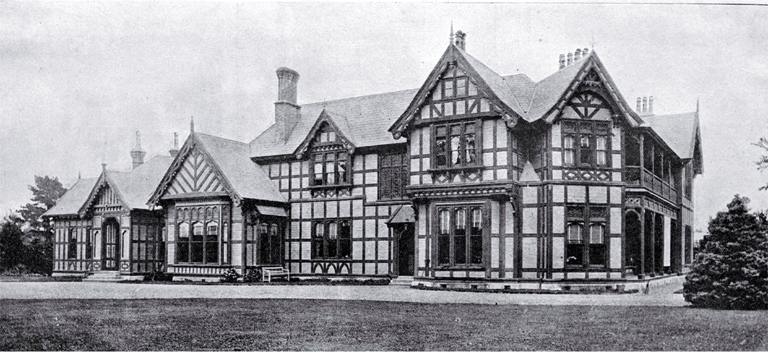 "Te Koraha, the residence of Mr A E G Rhodes, mayor, where the Duke and Duchess of York resided whilst in Christchurch." Te Koraha - Hewitts Road, Merivale, Christchurch. The Tudor Revival style home of Arthur Edgar Gravenor Rhodes who served as a Member of Parliament and as Mayor of Christchurch. The first parts of the house were built around an existing cottage in 1885 and there were subsequent additions and alterations in 1894, 1901-1902, 1905 and 1931, the work being designed by Armson, Collins and Harman. This photograph was taken when the Duke and Duchess of Cornwall and York stayed there in 1901. The house was later sold to the Misses Gibson who founded Rangi Ruru Girls' School there.